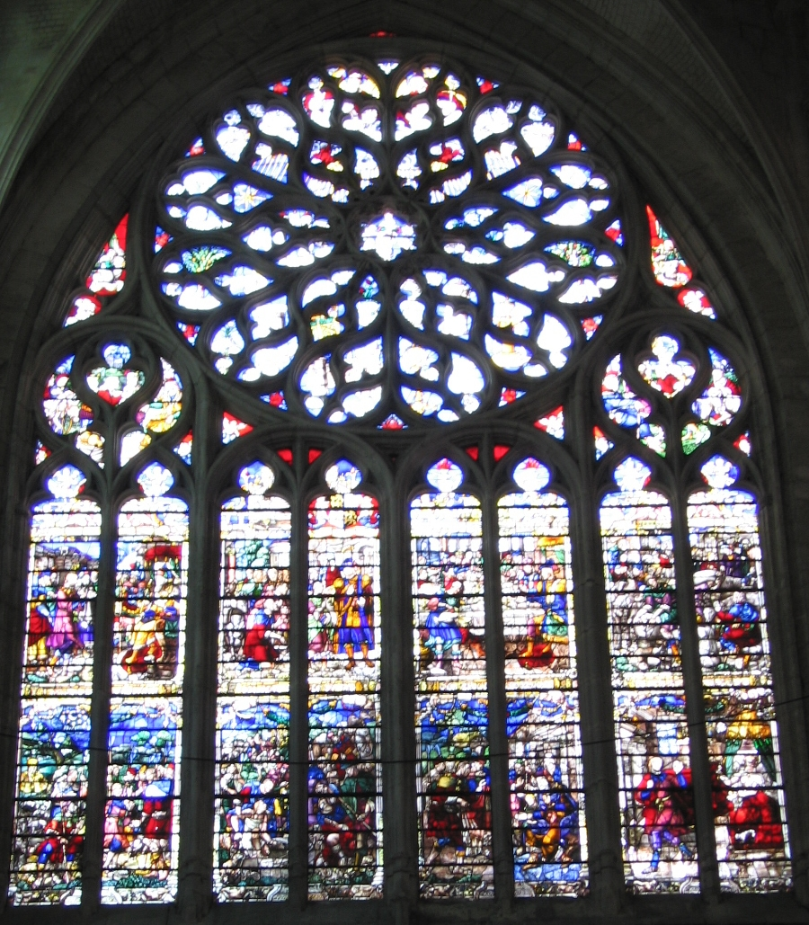 Windows of Saint-Etienne in Auxerre, France, by Germain Michel (1528).